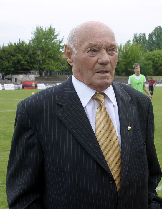 Jenő Buzánszky on his birthday celebration and stadium give nammed ceremony.